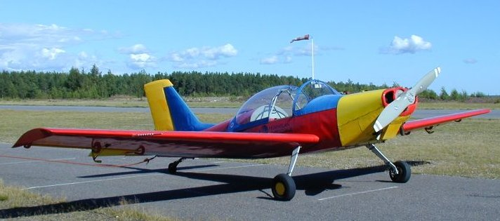 PIK-15 "Hinu" aircraft at Nummela airfield in August 2000.